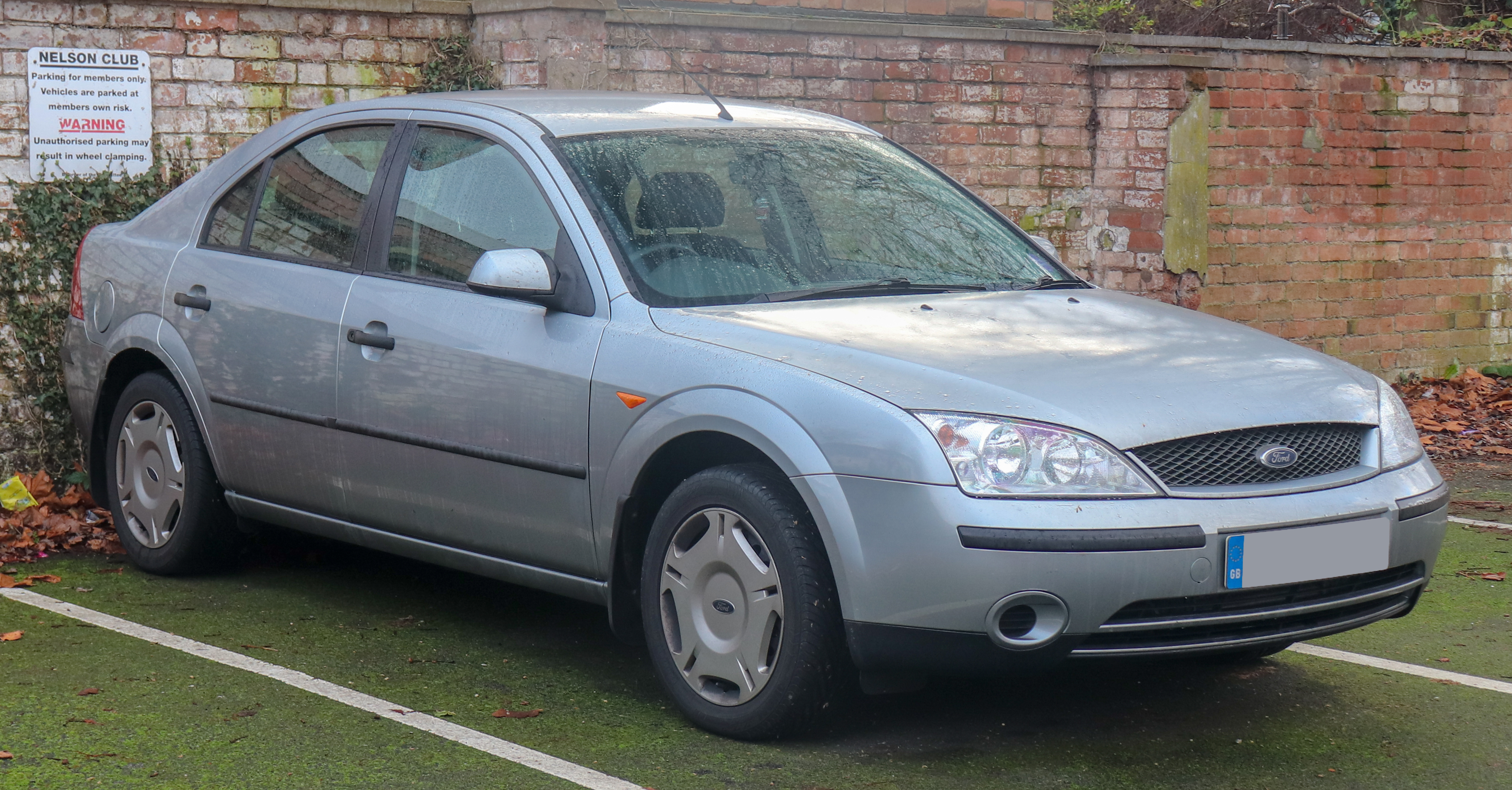 2003 Ford Mondeo LX TDCi 2.0 Taken in Warwick